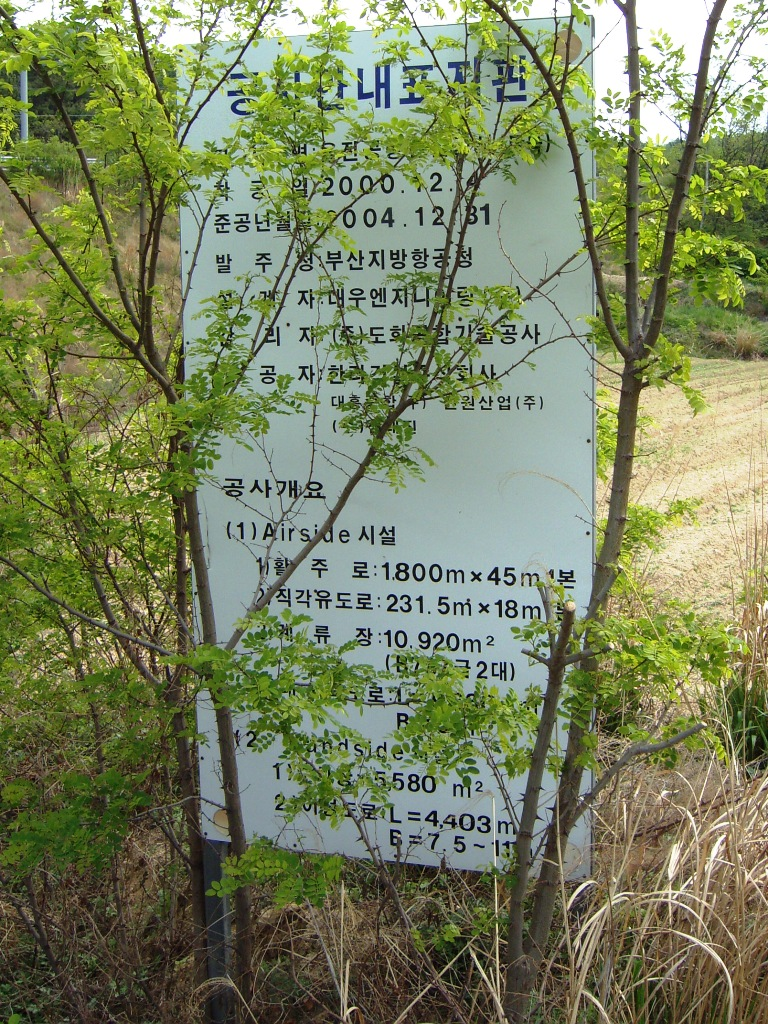 Uljin airport construction site sign put up at the entrance to the southern approach road to the airport